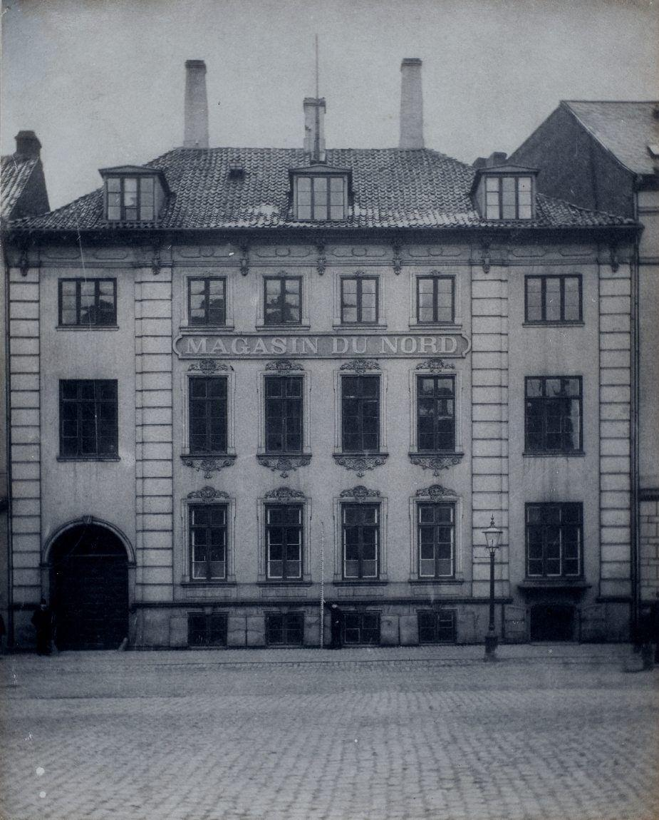 Magasin du Nord's former building on Kongens Nytorv in Copenhagen, Denmark